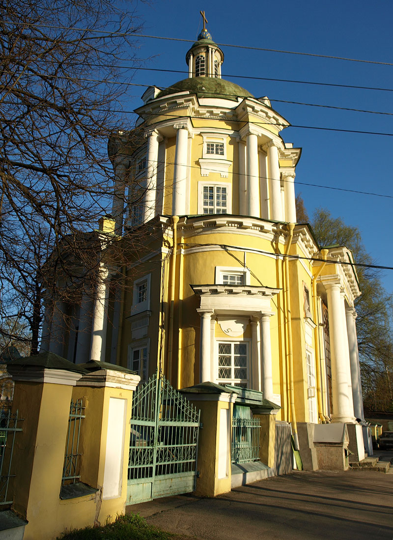 Church of Saint Vladimir in Vinogradovo (Severny district of Moscow). 1772-1774